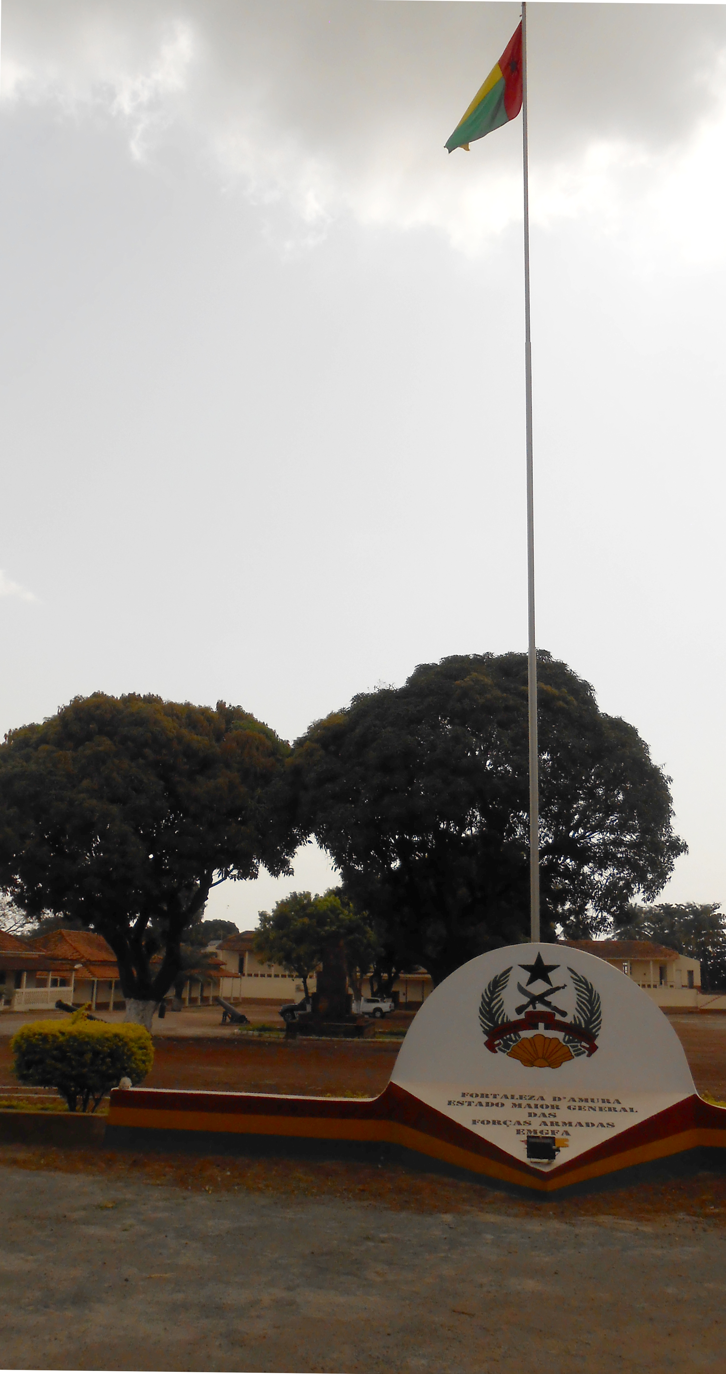 Inside the Fortaleza de São José de Amura fortress, flag in the entrance area.